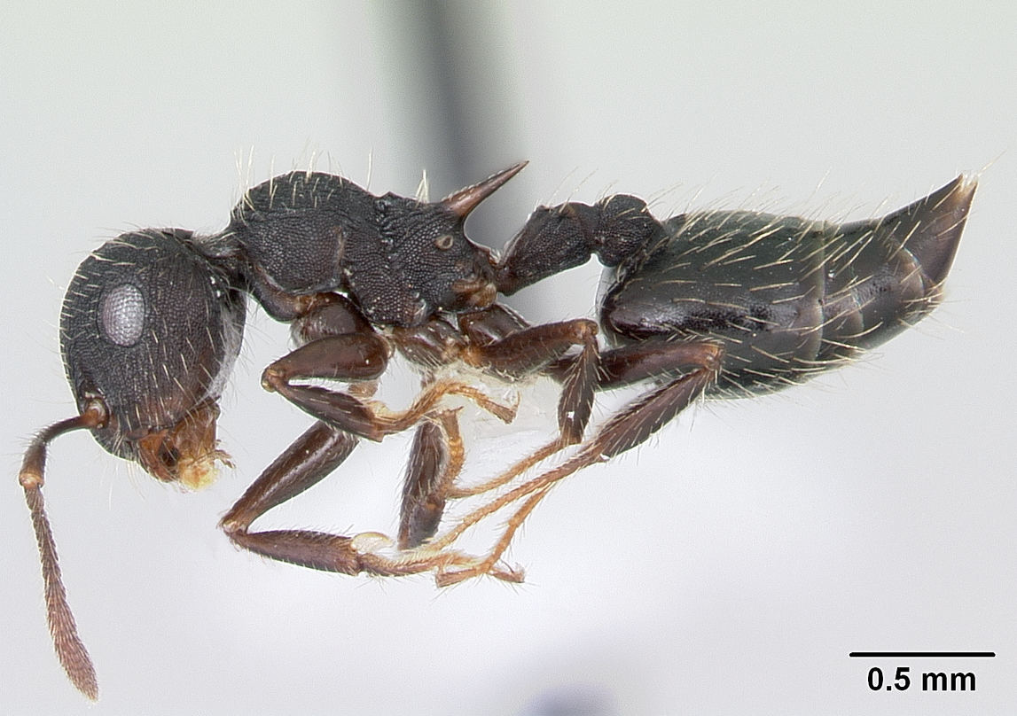 Profile view of ant Crematogaster bruchi specimen casent0173931.